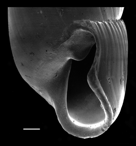 SEM image of lateral view of aperture of paratype of Gulella streptostelopsis. Scale bar is in 0.1 mm.